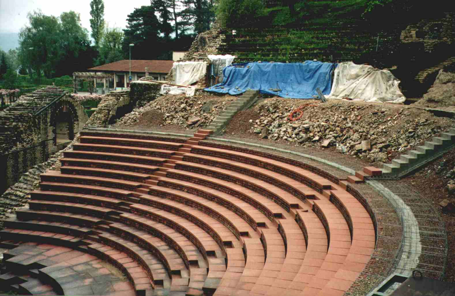 Roman Theater in Augusta Raurica